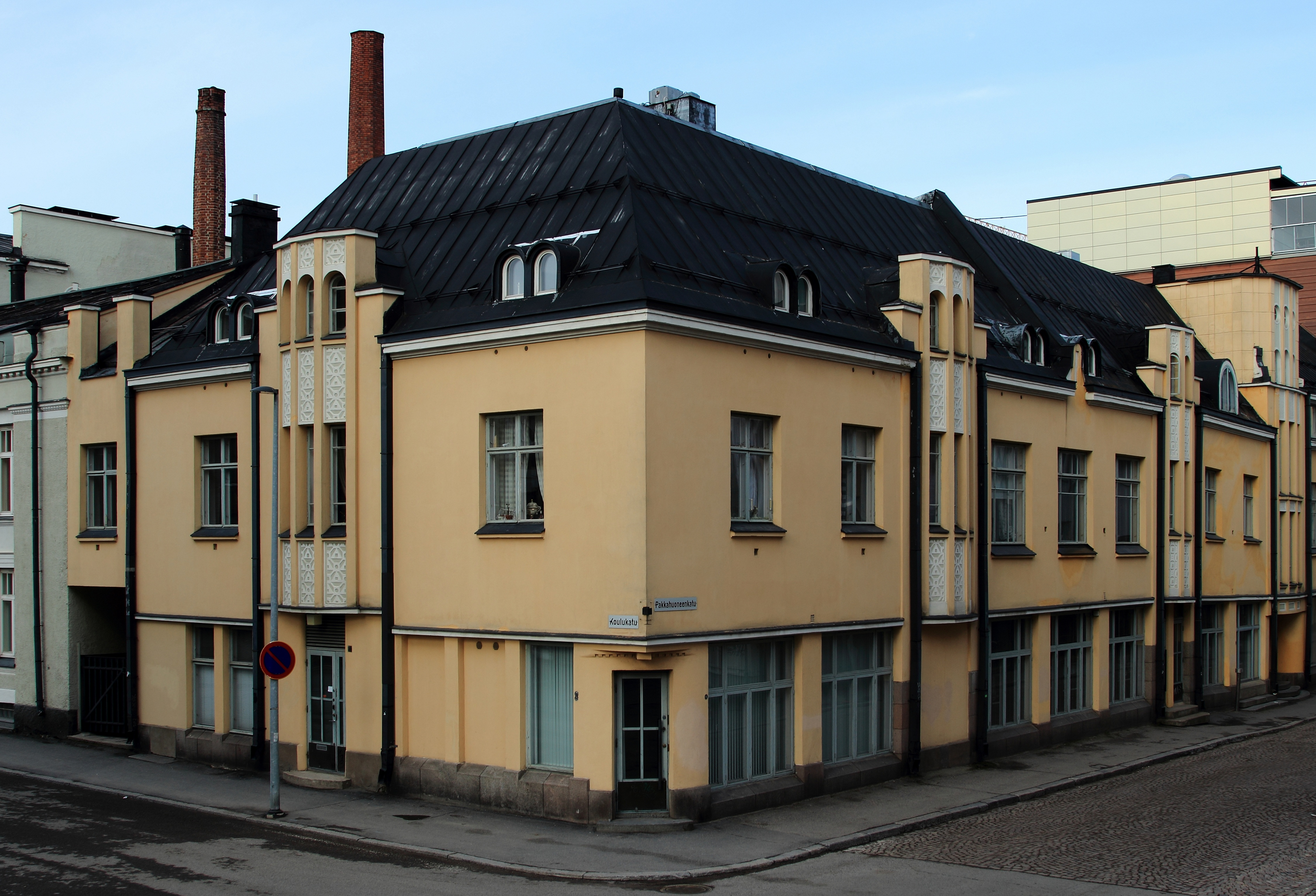 Former shop of the consumers' cooperative of Oulu.